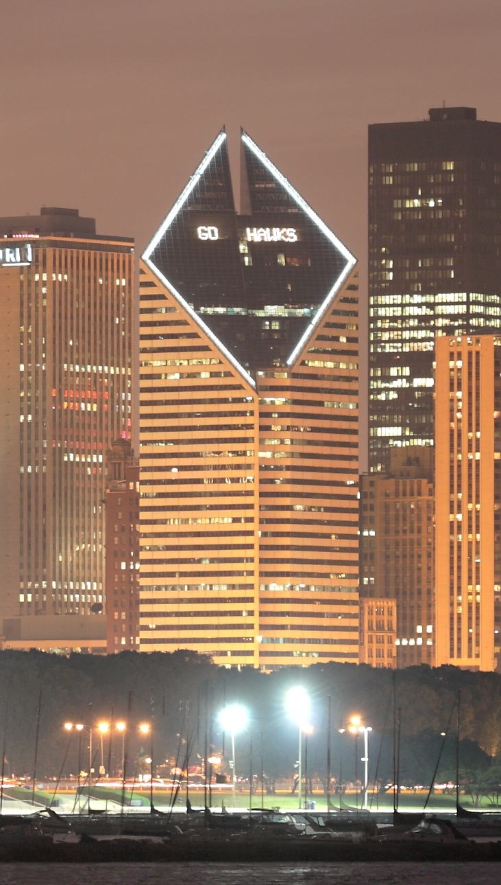 Chicago Skyline by Night, from Adler Planetarium. Some buildings show messages, acknowledging the 2010 Stanley Cup win of the Chicago Blackhawks.